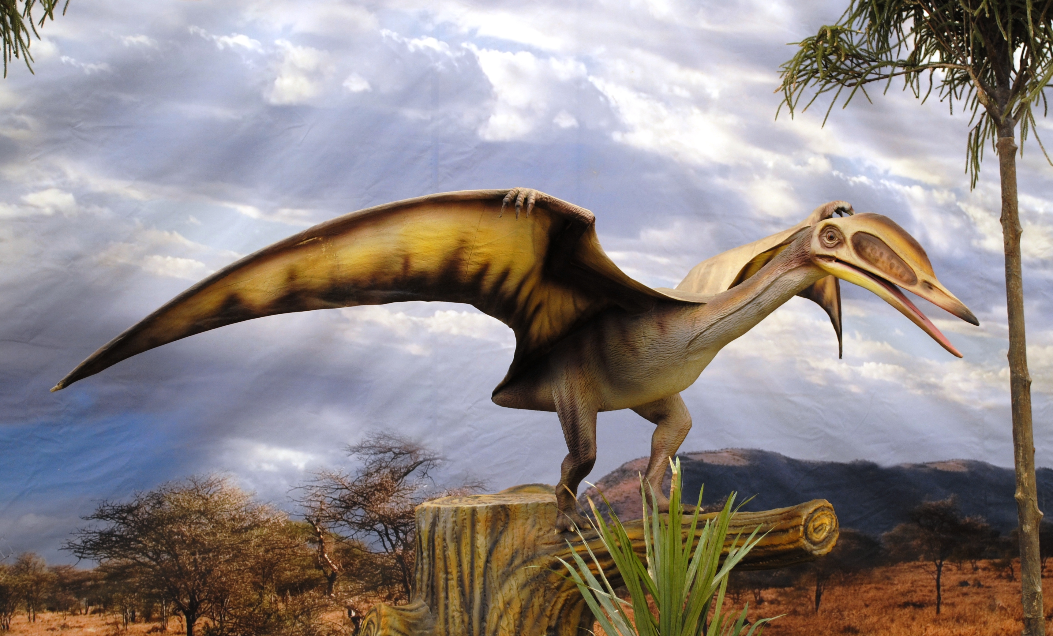 Dinosaurios Park, Pterosauria